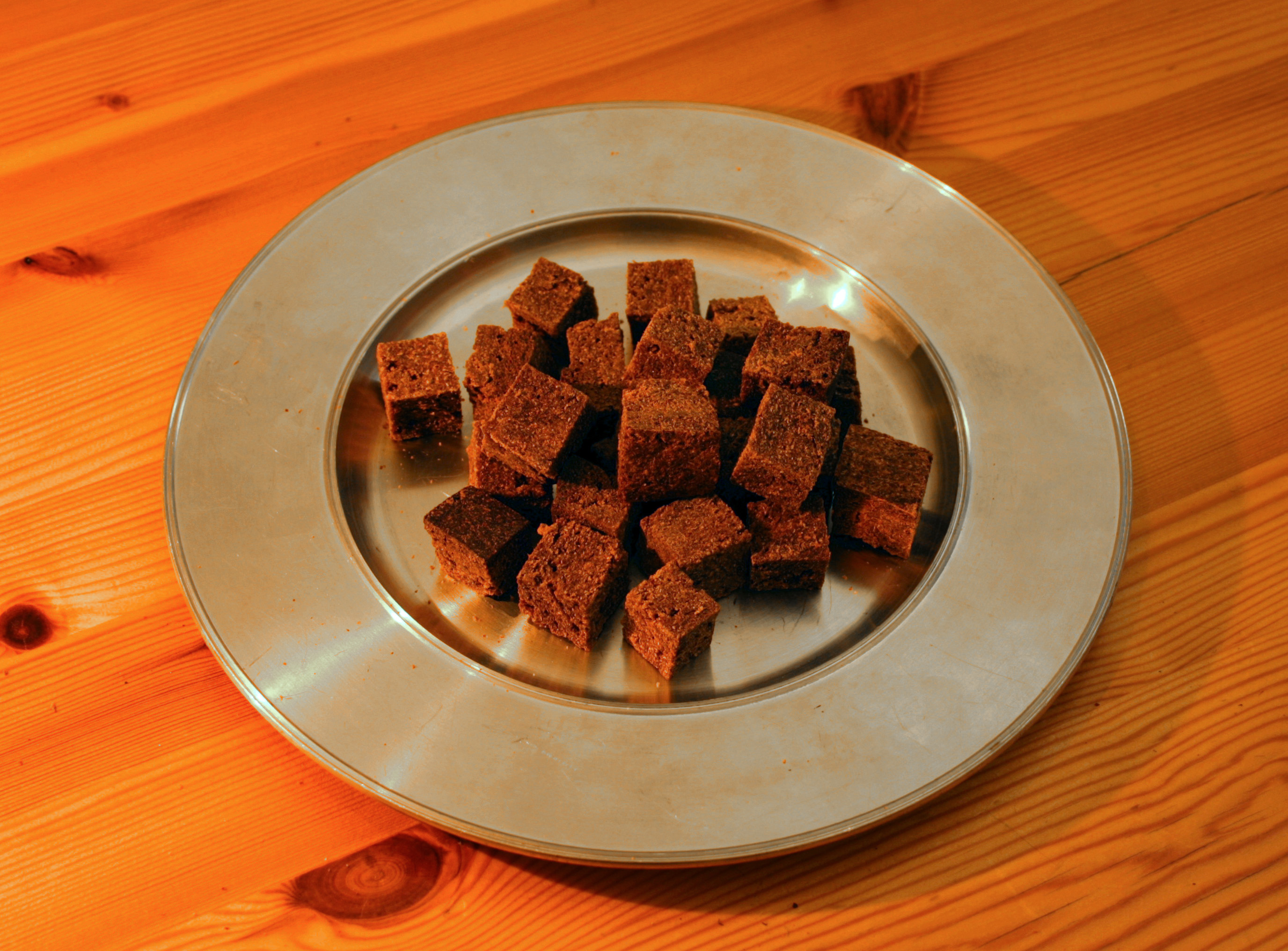 Rusk squares made of rye sourdough (some sources named it "Ammunition bread"). Baked and cut as Charles XII of Sweden order it to be.